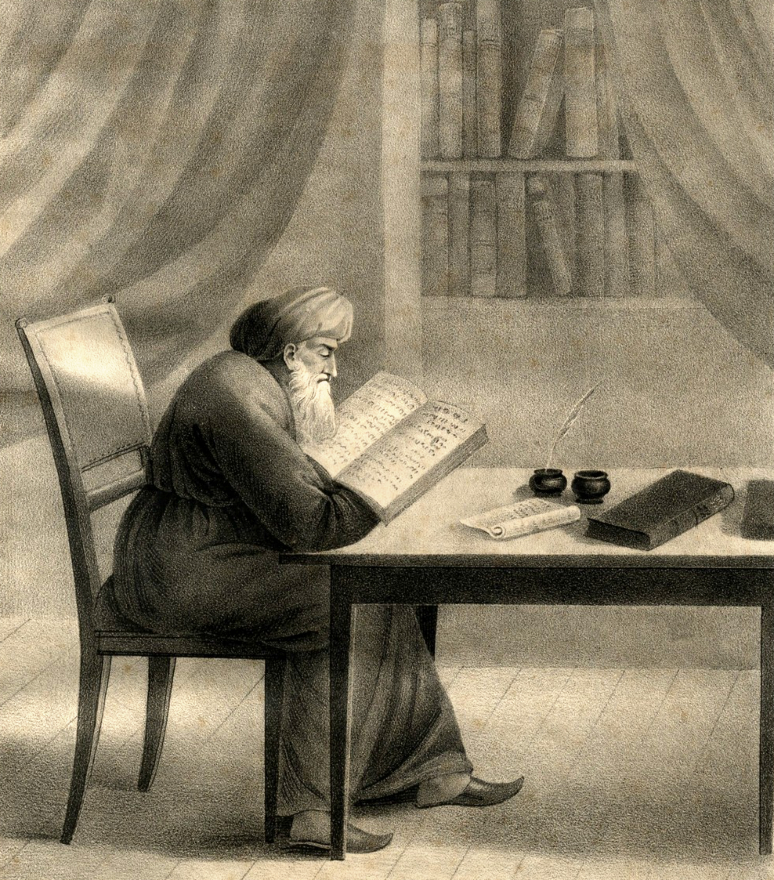 Portrait of Rabbi Yitzchak Alfassi – 19th Century.